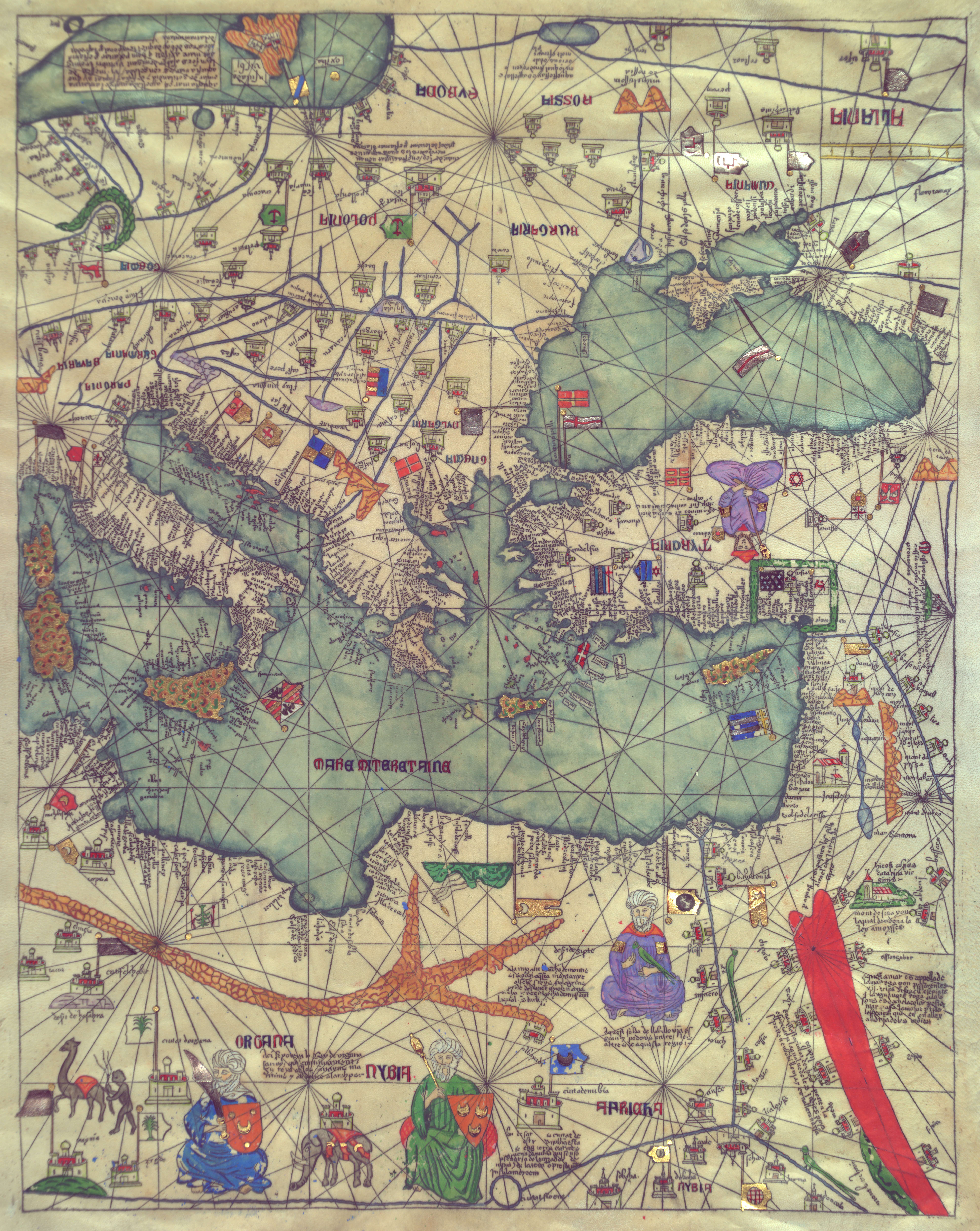 Map of eastern Europe, view from the south. Catalan Atlas reproduction.